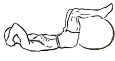 an exercise of abs